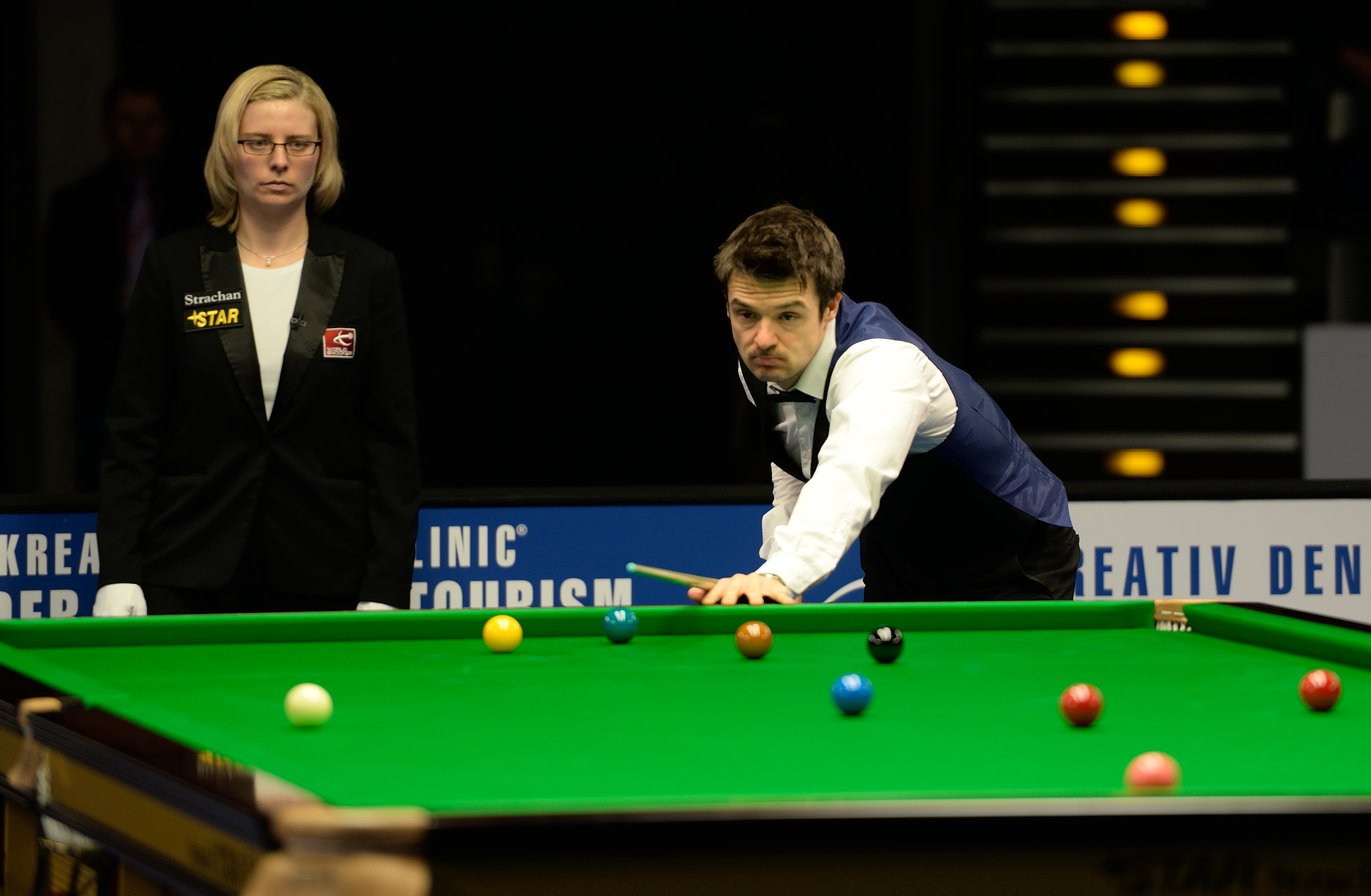 Picture taken in Berlin during the Snooker German Masters in 2015. Michael Holt, Maike Kesseler.